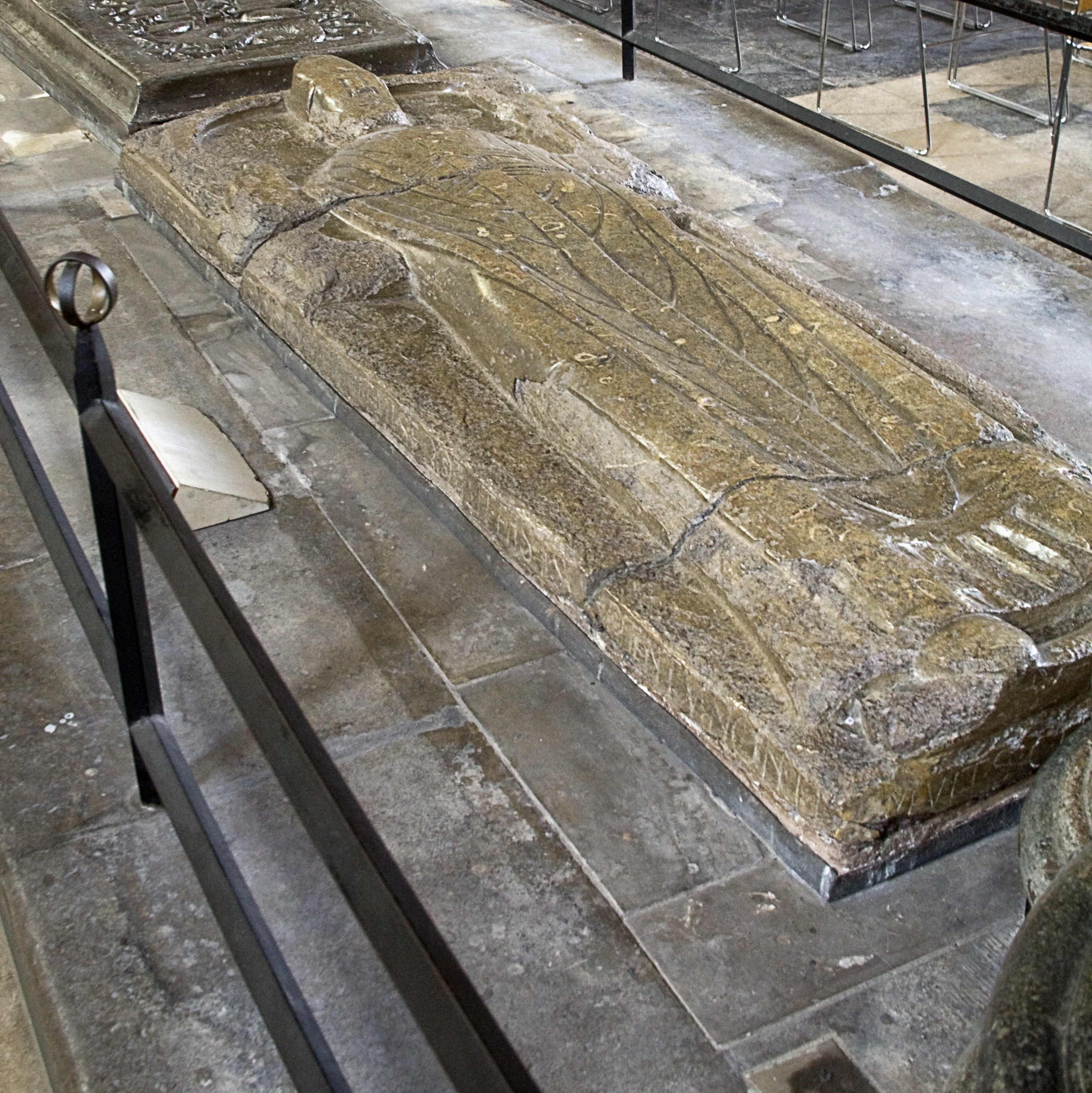 Tomb in Salisbury Cathedral, traditionally thought to be that of Jocelin de Bohun, d. 1184